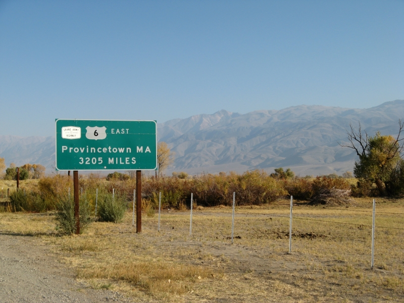 Road sign on U.S. Route 6 in California. Showing milage to its eastern end in Massachusetts. Image taken by this contributor on 26 October 2007